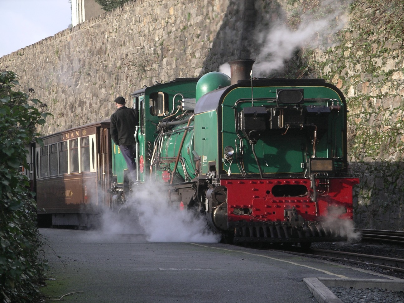 Welsh Highland Railway train leaving Caernarfon. Photographed on a Pentax Optio555 digital camera.